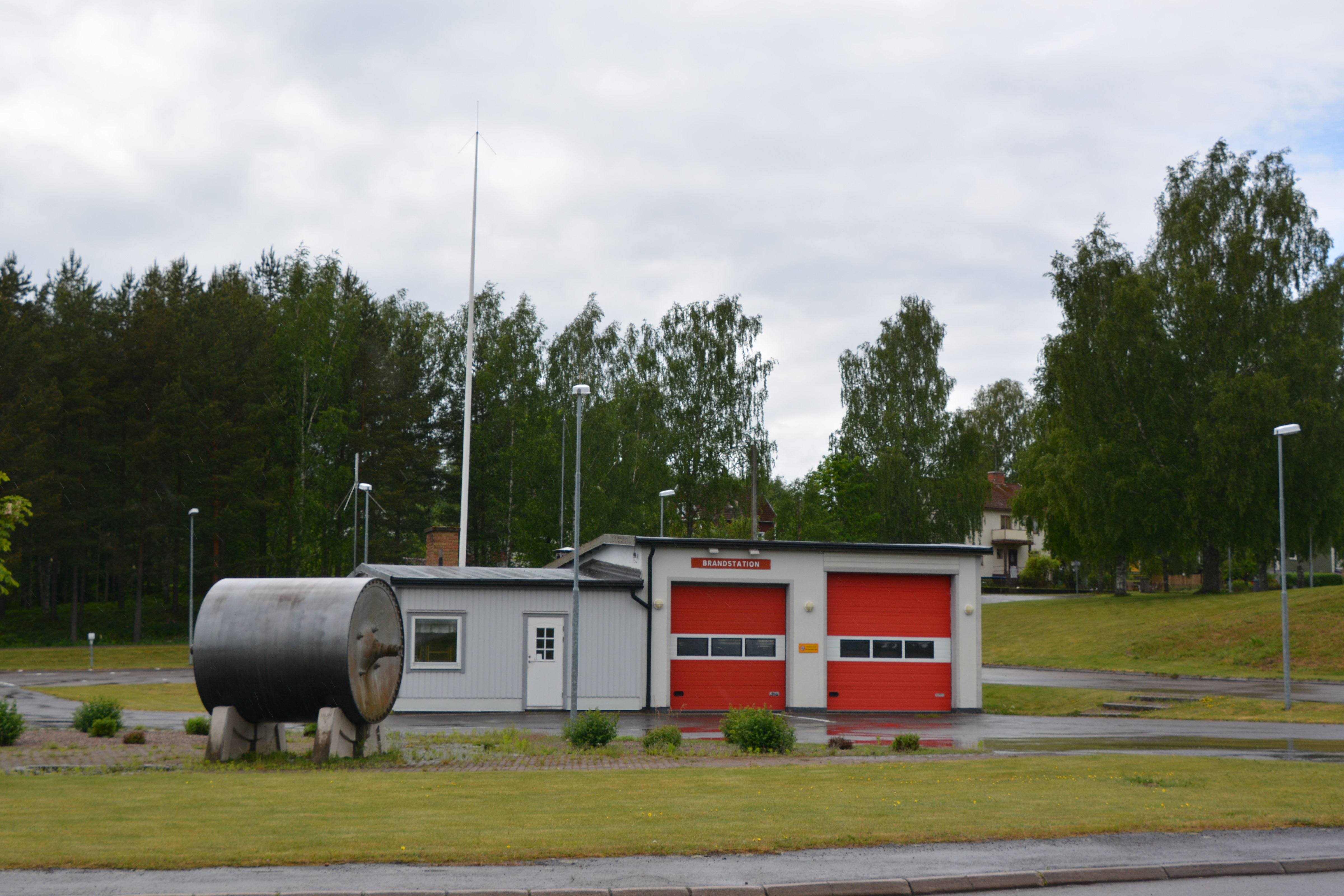 Pauliströms räddningsstation